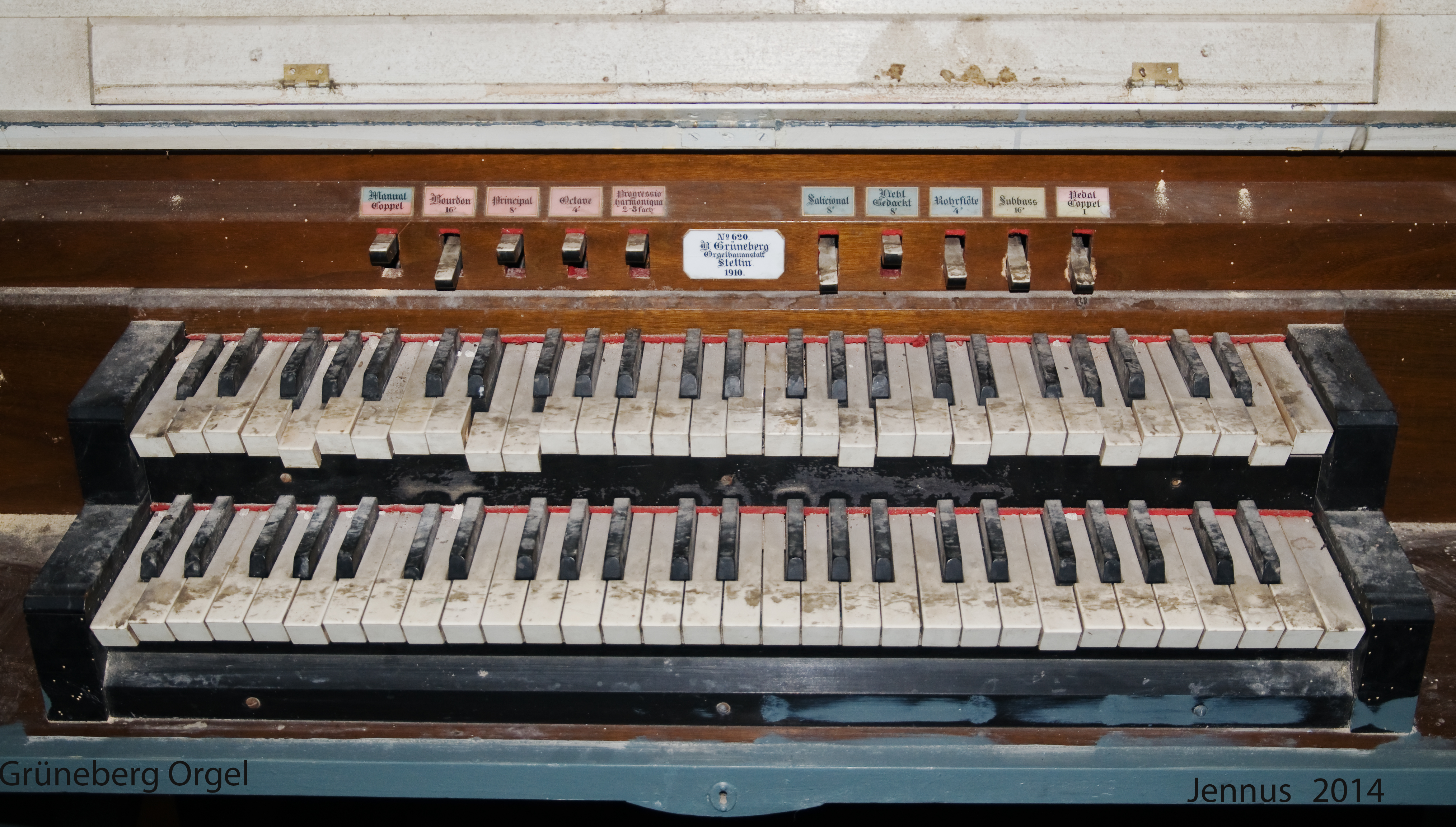 Organ console of the Grüneberg family